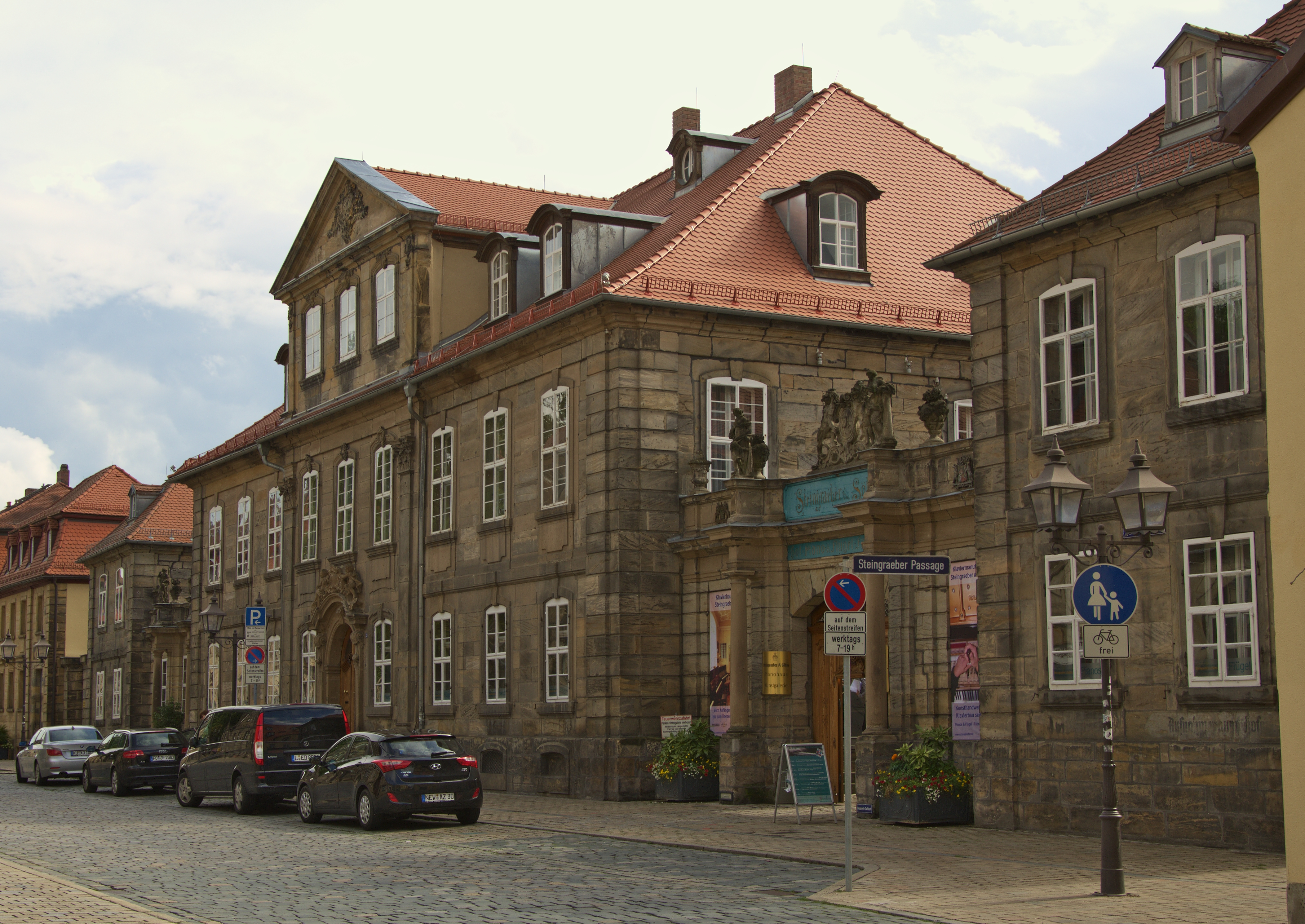 The Steingraeber-Haus in Bayreuth, 2014